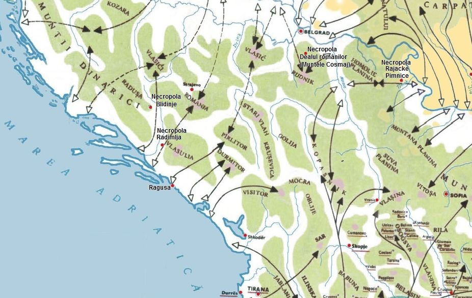 Traces of Vlach transhumance in Western Balkans